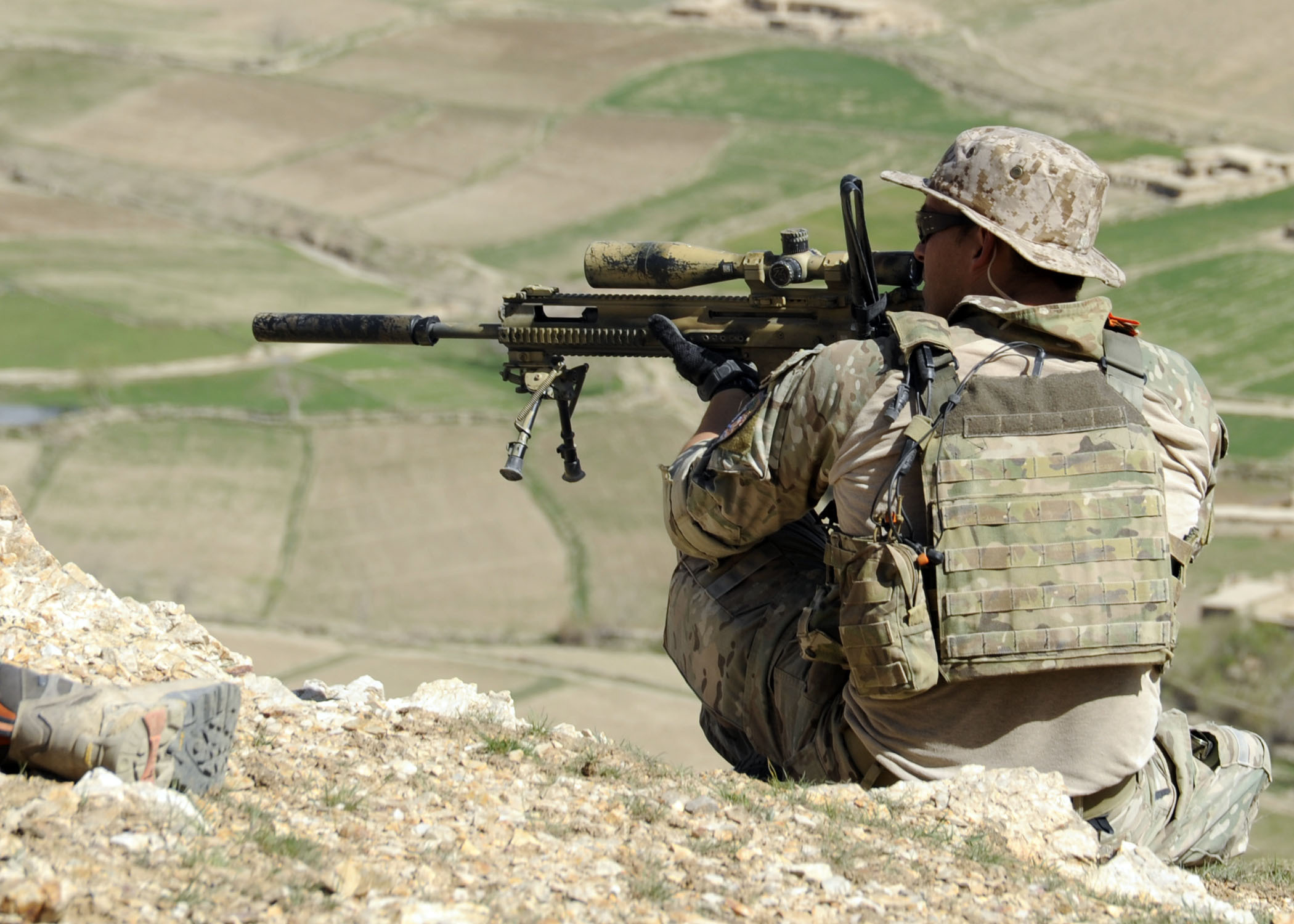 A coalition Special Operations Forces member fires his sniper rifle from a hilltop during a firefight near Nawa Garay village, Kajran district, Day Kundi province, Afghanistan, April 3. Coalition SOF partners with the 8th Commando Kandak to conduct operations throughout Day Kundi, Uruzgan and Zabul provinces.